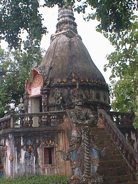 Photo of the chedi at Wat Grung See Jayrin in Grong Greng, Bang Krathum, Phitsanulok, Thailand